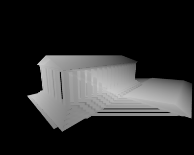 praetor alpha pass two, shadow map projected over scene